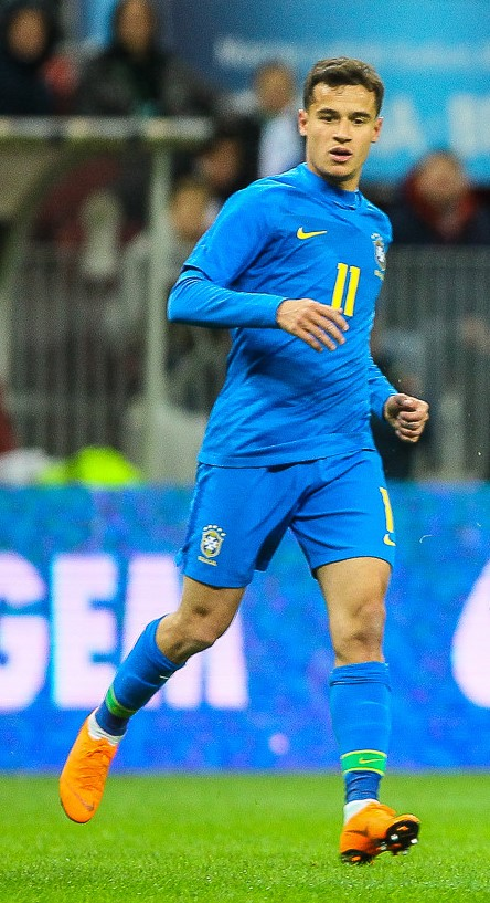 Philippe Coutinho